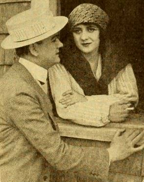 Still from the American film Checkers (1919) with Thomas Carrigan and Jean Acker, on page 235 of the April 12, 1919 Moving Picture World.